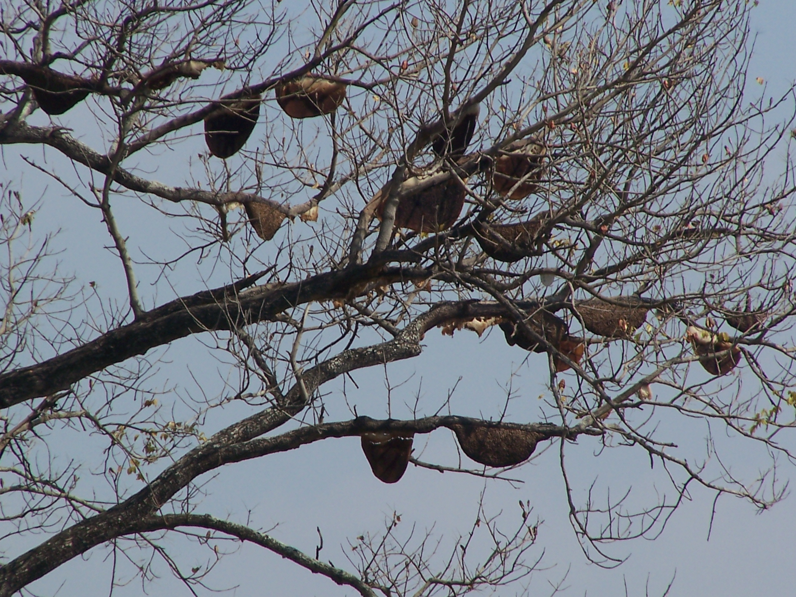 Rajesh Dangi,Srirangpatna, Jan 2007, "Honeycombs on a tree"